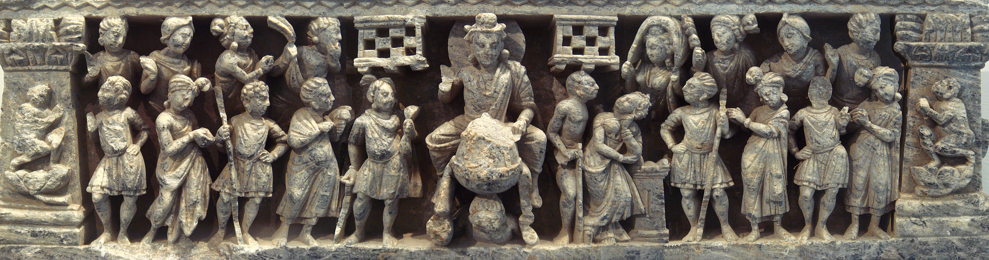 Scene of the Buddha's Great Departure from palatial life. Gandahara 1-2nd century. Guimet Museum. Personal photograph 2005. This scene depicts the "Great Departure" predestined being, he appears here surrounded by a halo, and accompanied by numerous guards, mithuna loving couples, and devata, come to pay homage.[1]